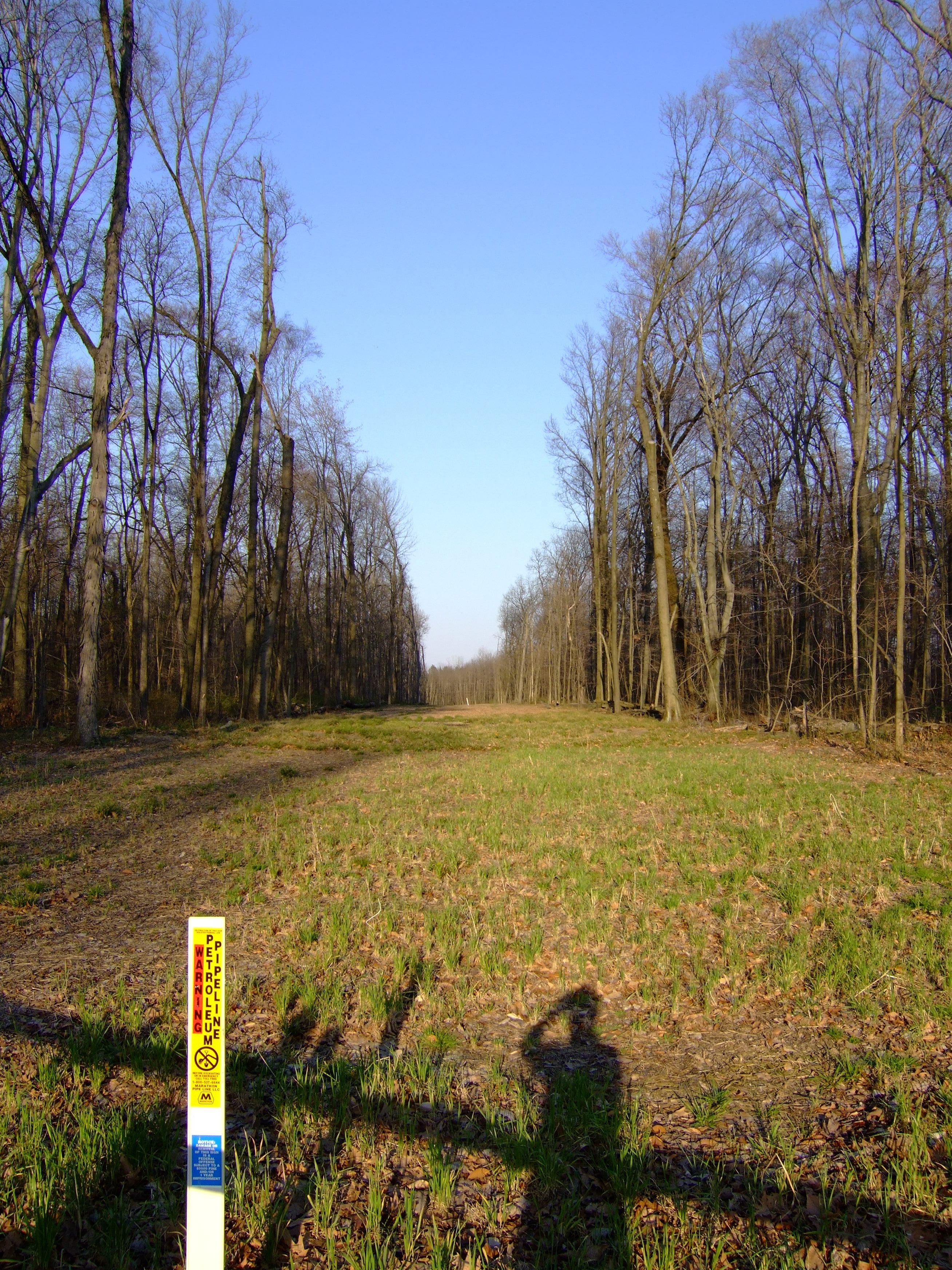 The right of way for a petroleum pipeline running through Blendon Woods Metro Park